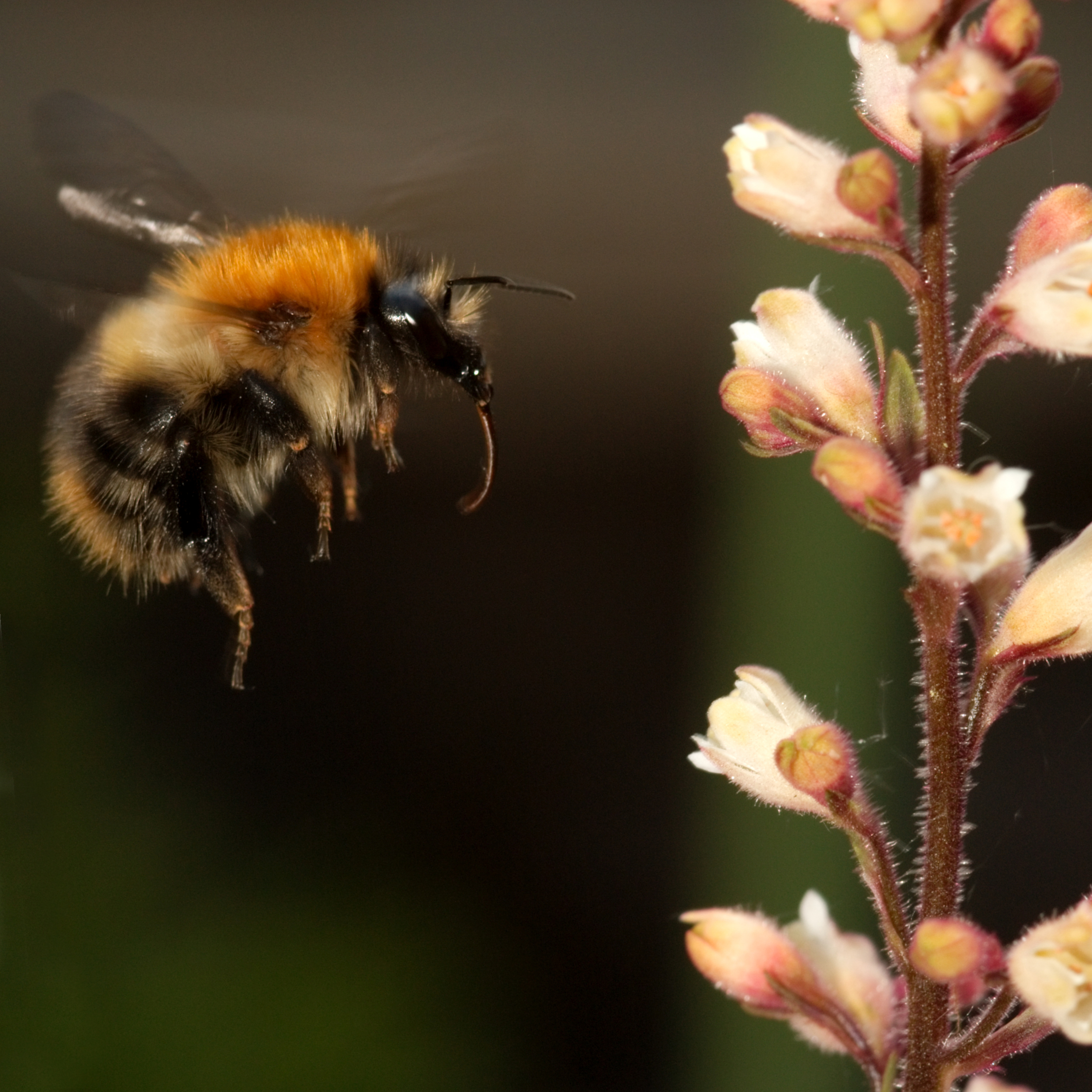 A male bumblebee about to alight on a Heuchera, with its glossa extended and ready to extract nectar.